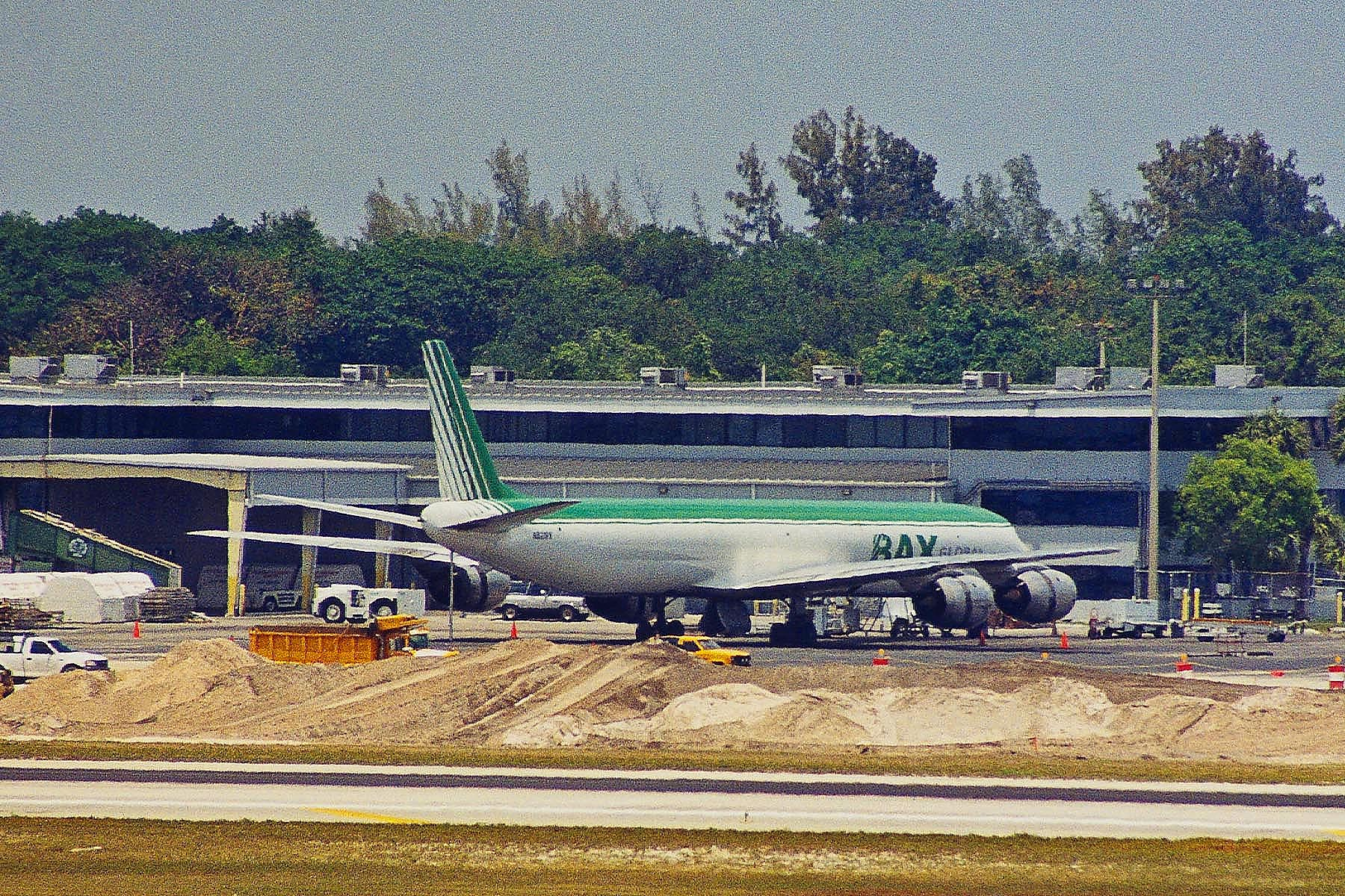 A picture of an airplane